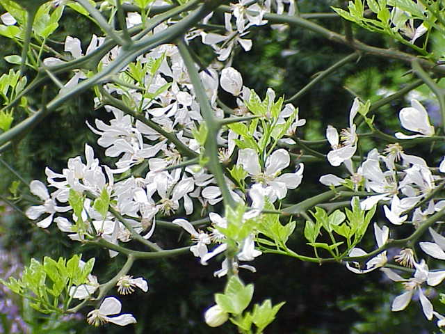 Species: Poncirus trifoliata Family: Image No. 2